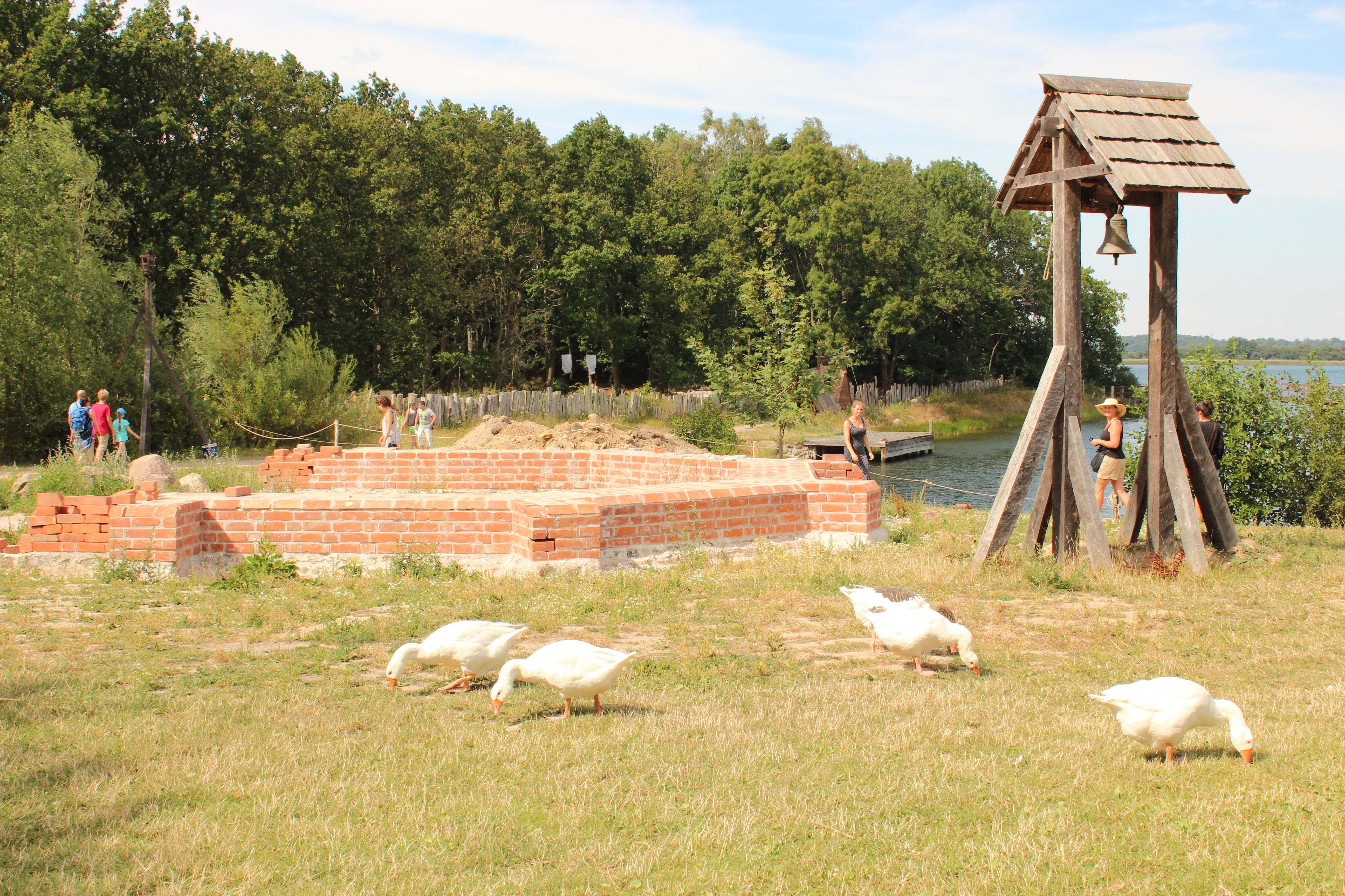 Reconstructed church (work in progress) and bell tower at Middelaldercentret.